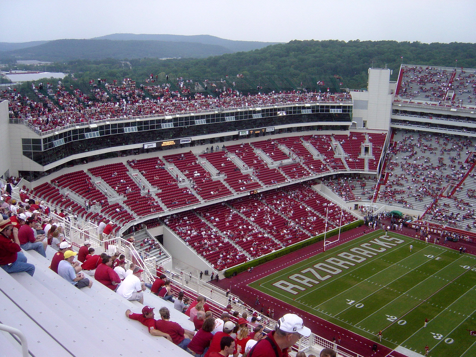 The Donald W. Reynolds Razorback Stadium with the Ozarks in the background. Photo taken by Bobak Ha'Eri. September 2, 2006. Please observe license and properly cite in use outside Wikipedia.